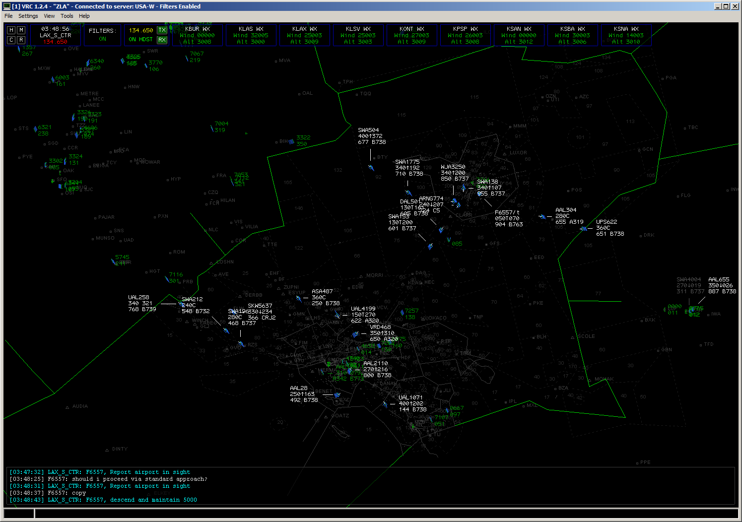 VRC, virtual radar client software used on the VATSIM network showing Los Angeles (ZLA) center populated with aircraft.